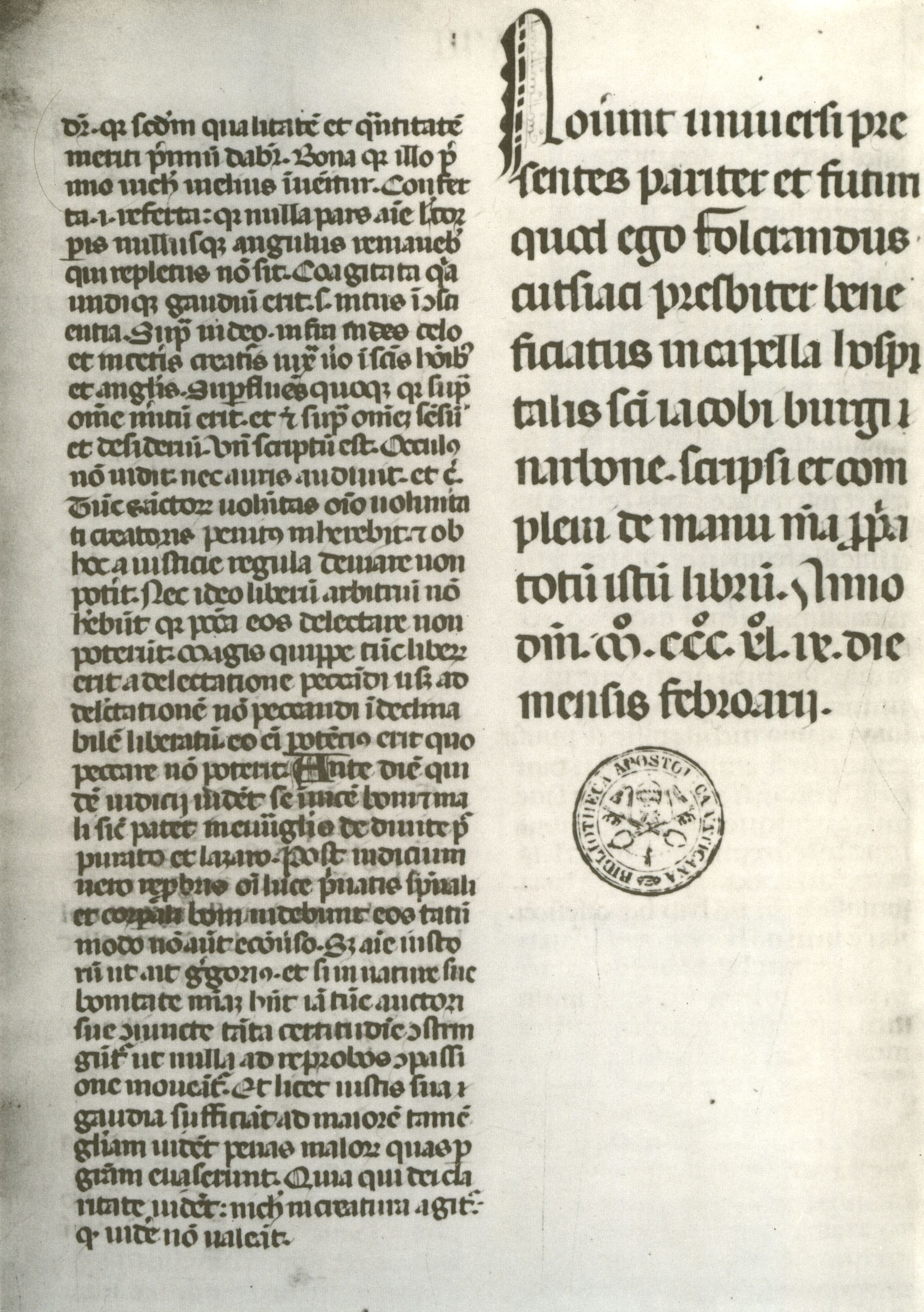 Vincent of Beauvais, Speculum historiale. Script: Rotunda. Manuscript: Vatican, Biblioteca Apostolica Vaticana, Vat. Lat. 1966, fol. 339v.